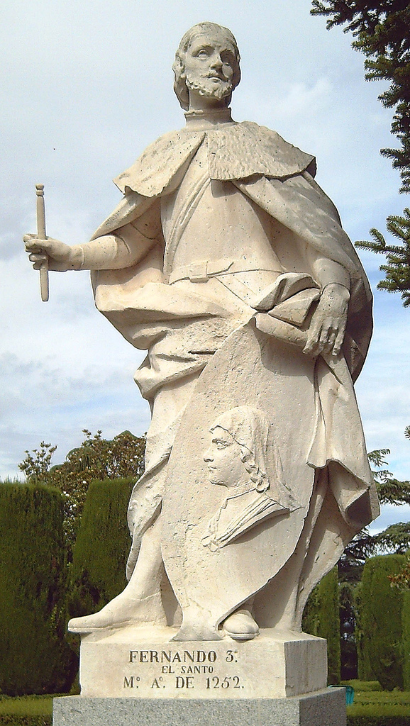 Statue of Ferdinand III of Castile, the Saint (1155–1214).